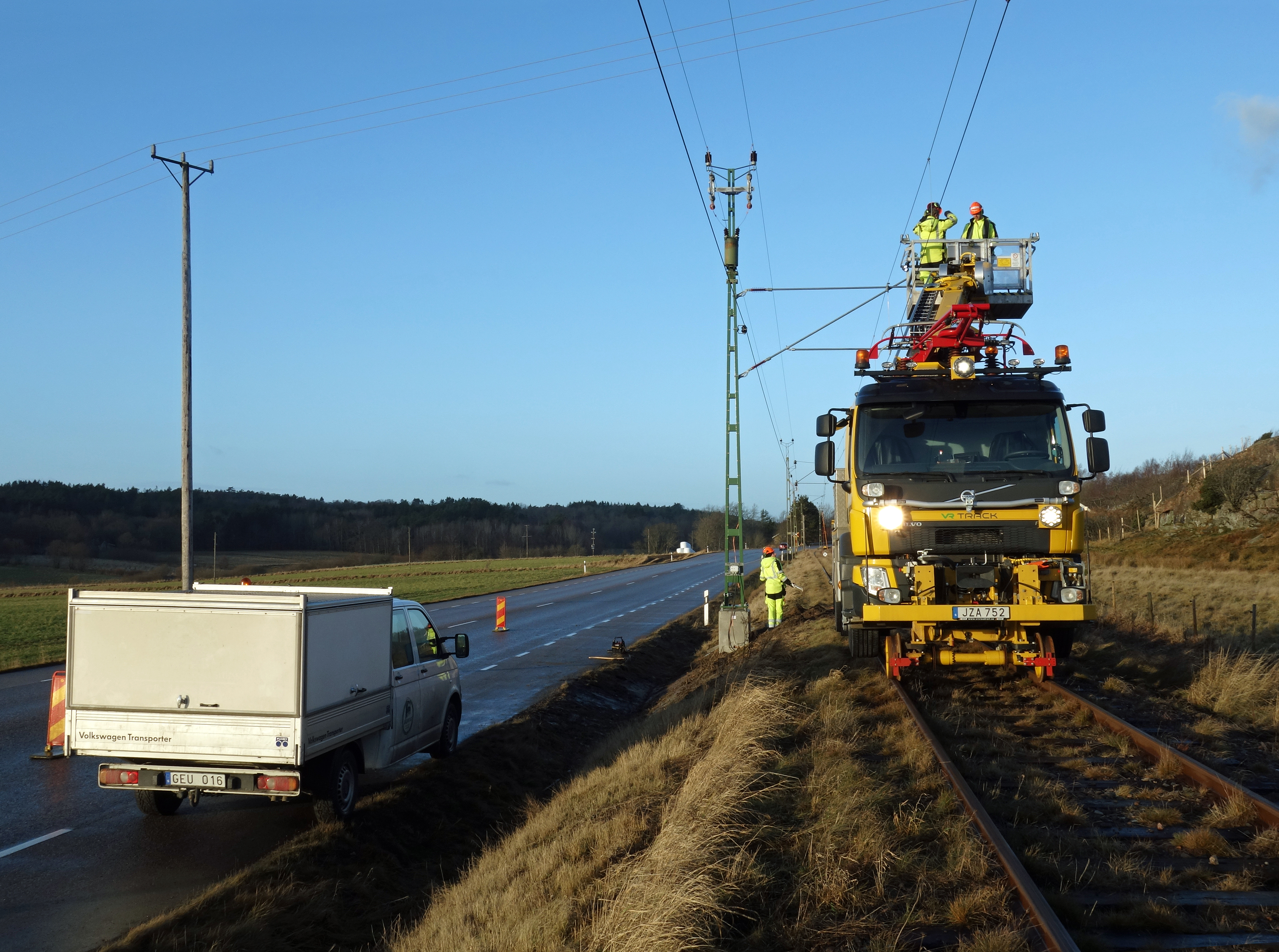 A crew doing repairs and maintenance on the overhead lines on Lysekilsbanan, the Lysekil Line, at Öhed between Brastad and Gåseberg in Lysekil Municipality, Sweden. The picture was taken with the consent of the crew. The railway is part of Lysekilsbanan, an inactive line in 2016. For active railroads, do not take pictures on, or in very close proximity to, the tracks unless you are able to arrange safe circumstances to do so.